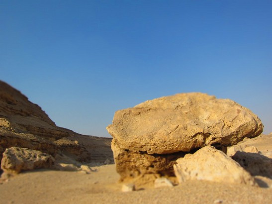 قبور في ظفار